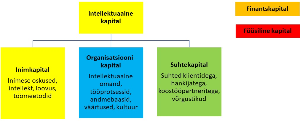 Intellectual Capital by J.Roos